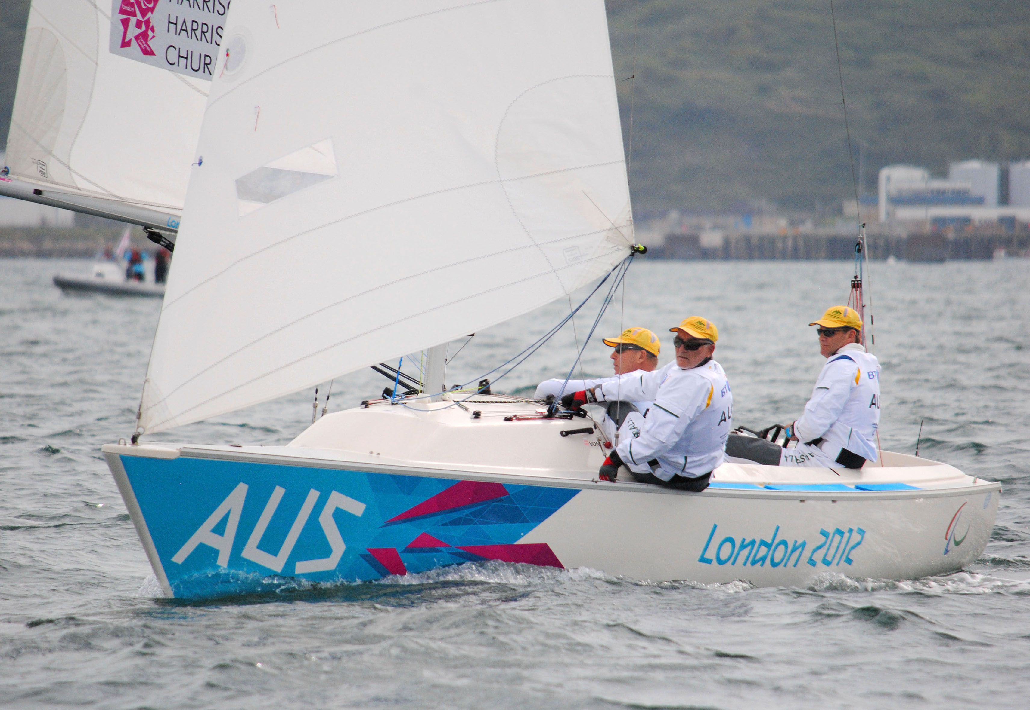 Photograph of Australian Paralympic team member Jonathan Harris, Stephen Churm & Colin Harrison at the 2012 Summer Paralympic Games in London